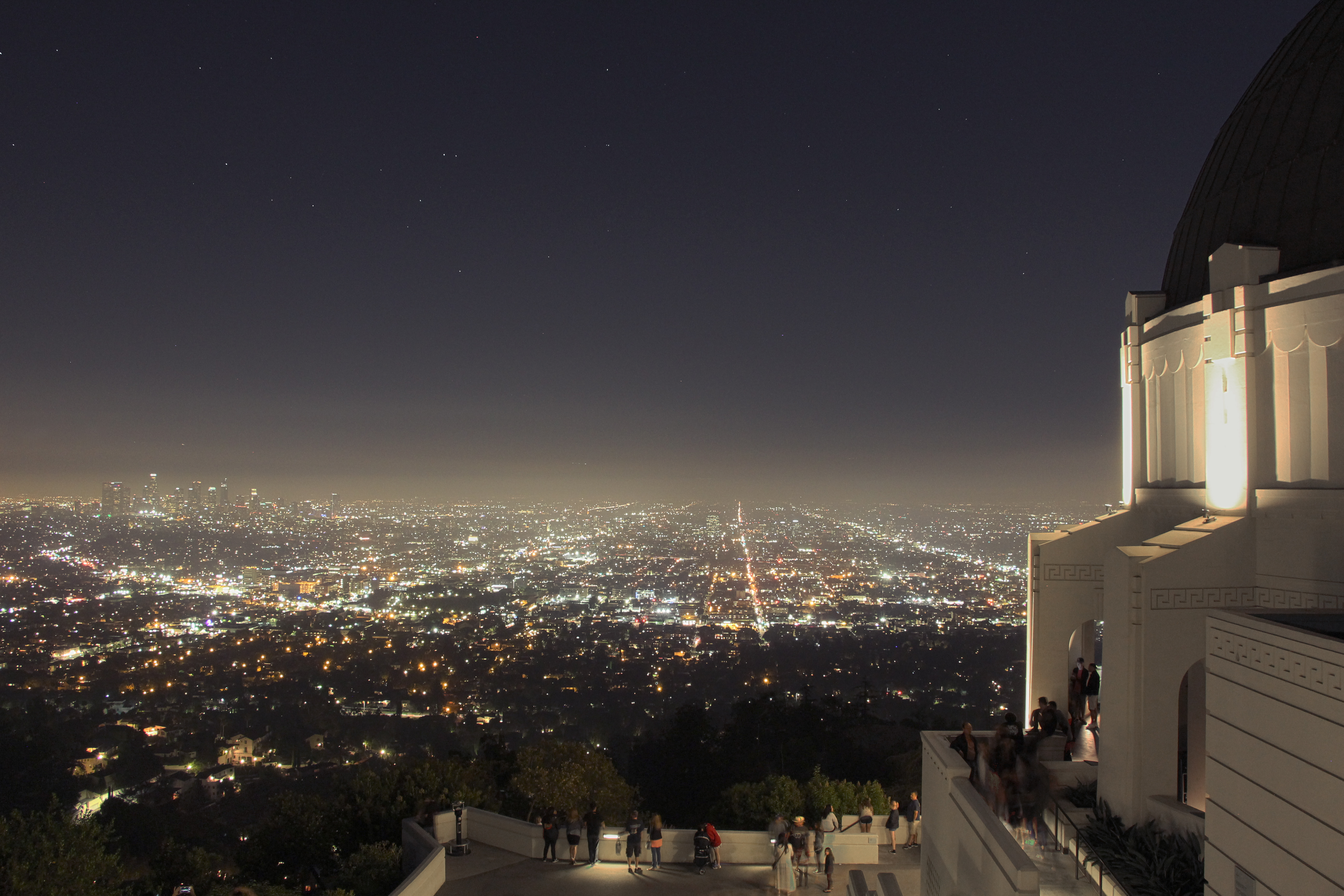 Los Angeles city skyline at night with the Griffith observatory in the foreground